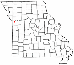 Map showing location of Independence, Missouri.